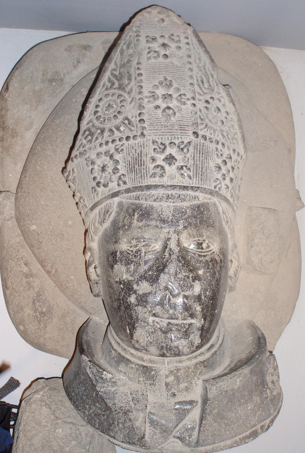 Photo of the bust of Henry Wardlaw, Bishop of St Andrews